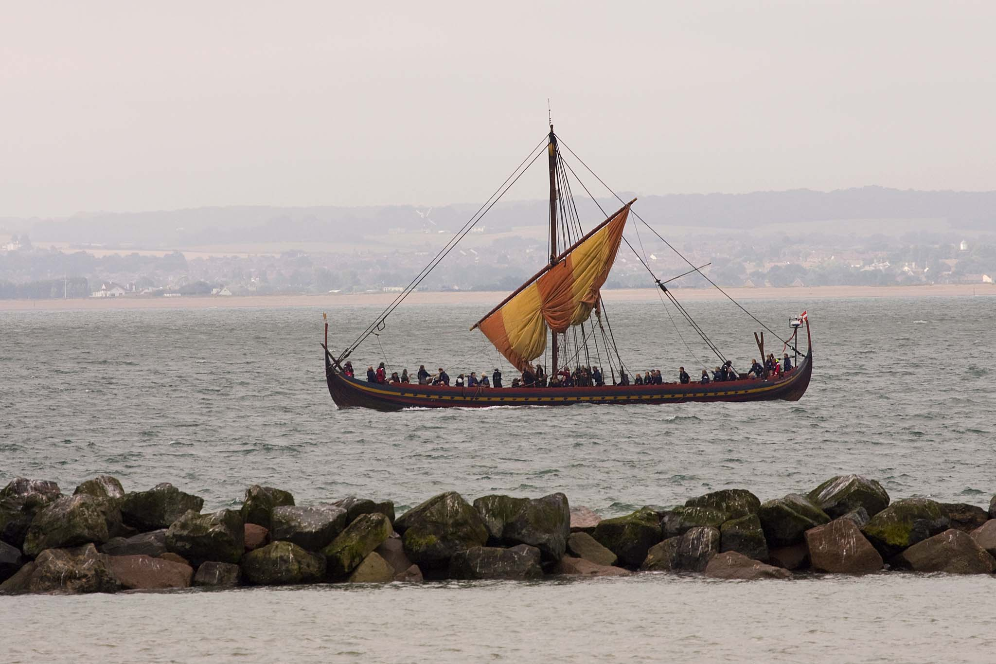 The Sea Stallion waiting to enter Ramsgate Harbour after its voyage from Portsmouth.